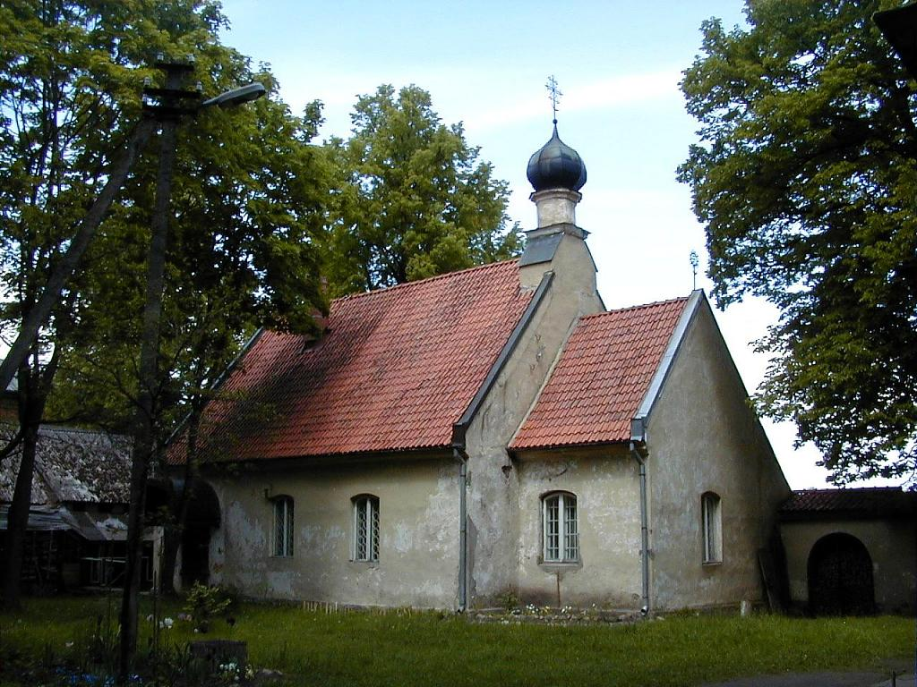 Jēkabpils Saint Nicholas the Wonderworker Orthodox Church